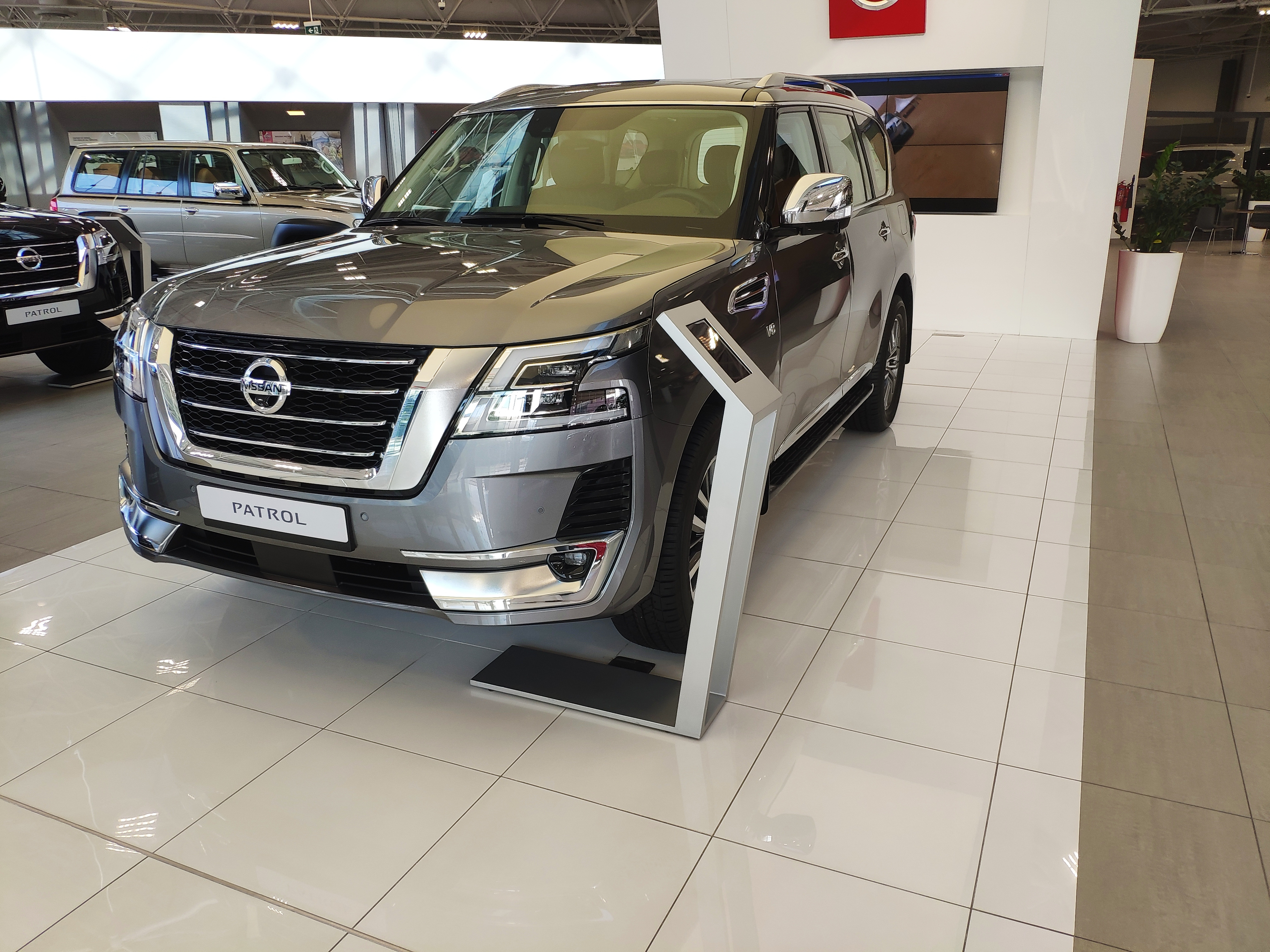 Nissan Patrol 2020 facelift